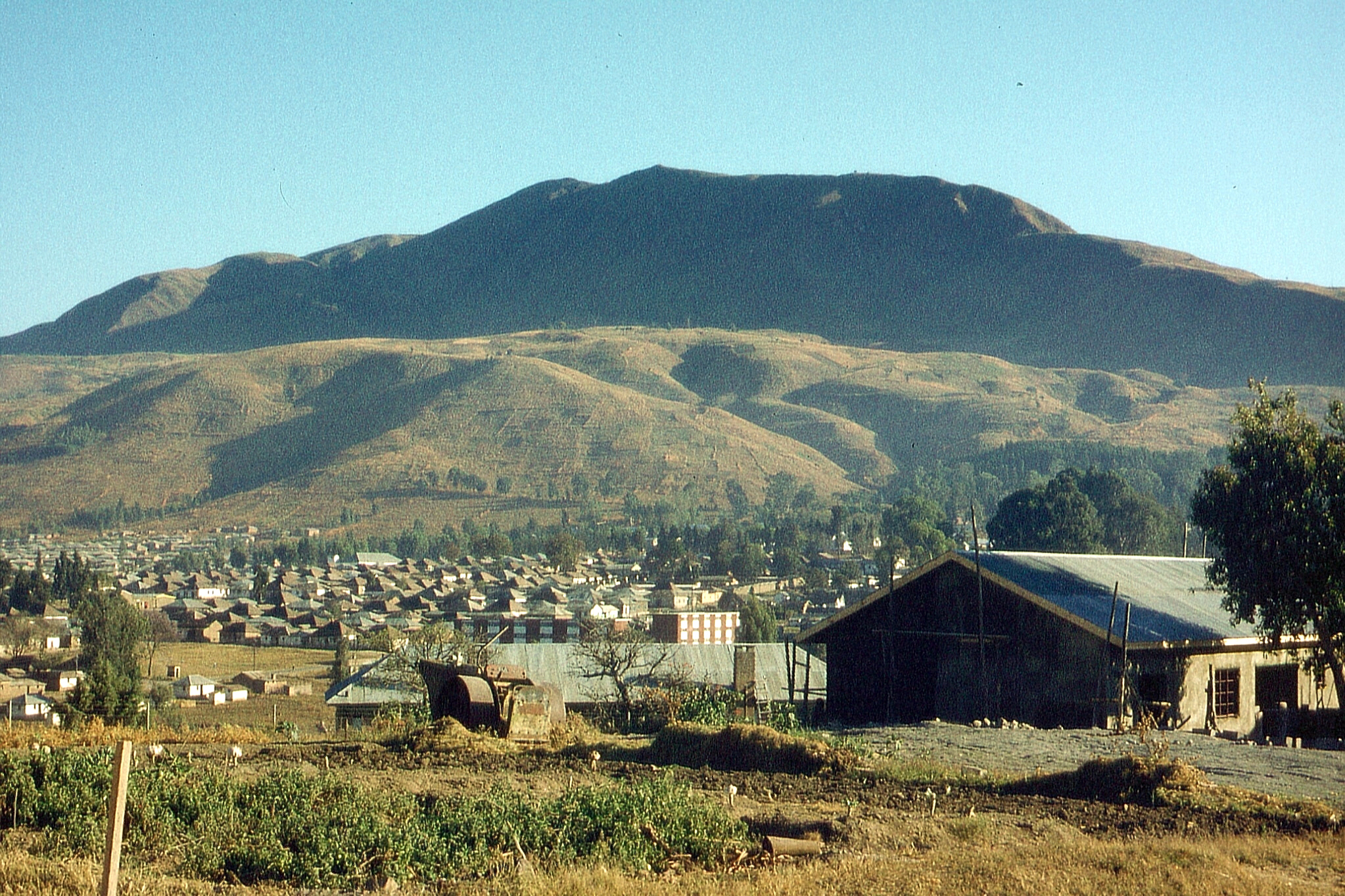 Mbeya, Tanzania in 1978